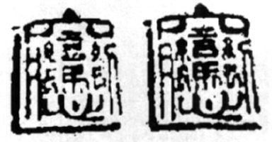 The rubbings of Biáng.